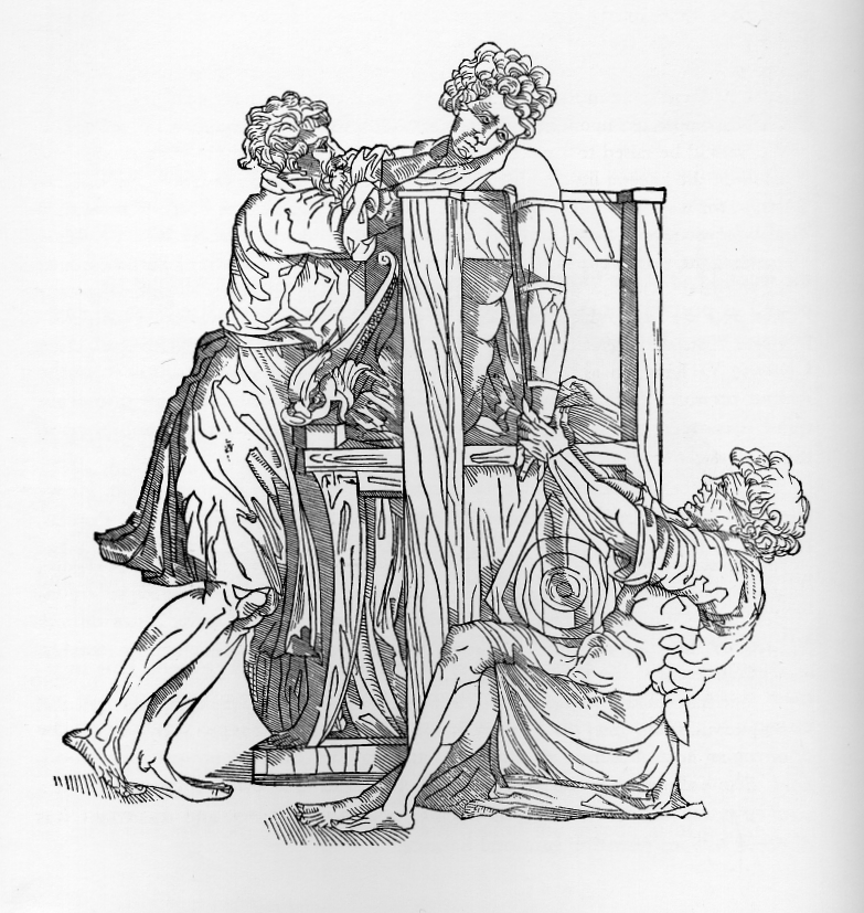 Reduction of a dislocated shoulder with a Hippocratic device. This is "a woodcut probably after a drawing by Francesco Salviati".